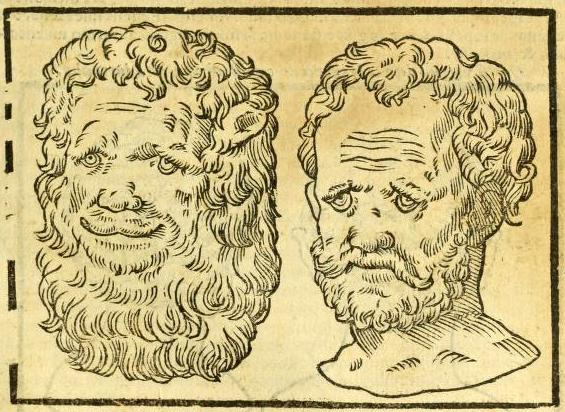 [Detail] Della fisionomia dell'huomo (1644). In the Julius S. Held Collection of Rare Books. Sterling and Francine Clark Art Institute Library.